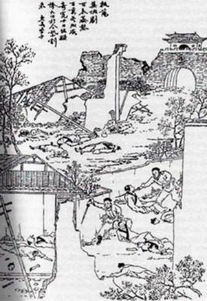 A late Qing era depiction of the massacre of Yangzhou